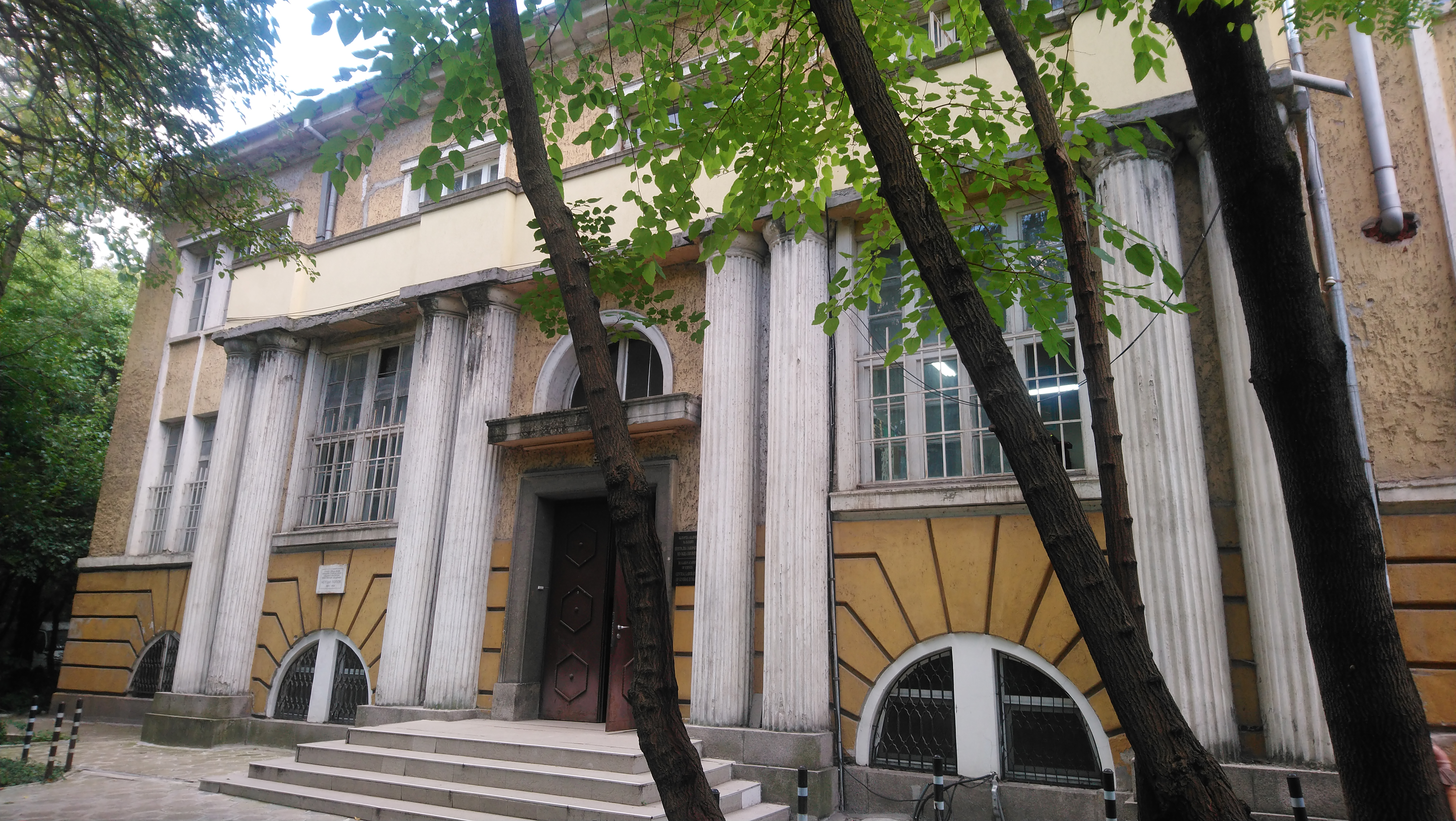 Institute of Biodiversity and Ecosystem Research, Bulgarian Academy of Sciences